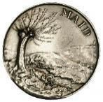 Reifensteiner Schule Schulnadel Trillke-Gut Fotografin Lücke